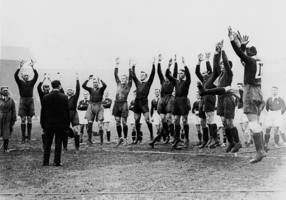 Australian Rugby League (Kangaroos) Team of 1929-30 giving their war-cry